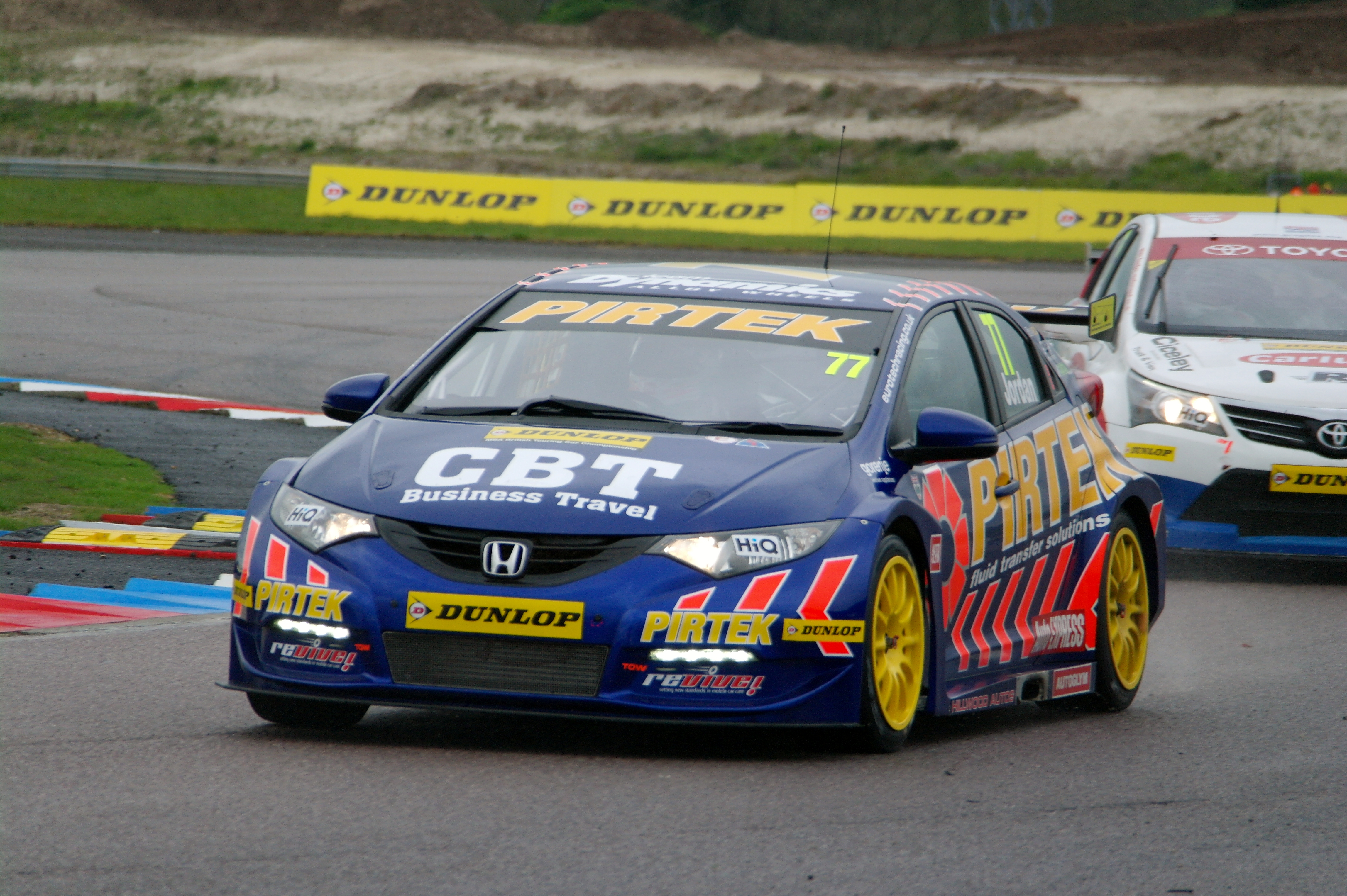 Andrew Jordan driving for Pirtek Racing during second practice at Thruxton in the 2012 British Touring Car Championship season.